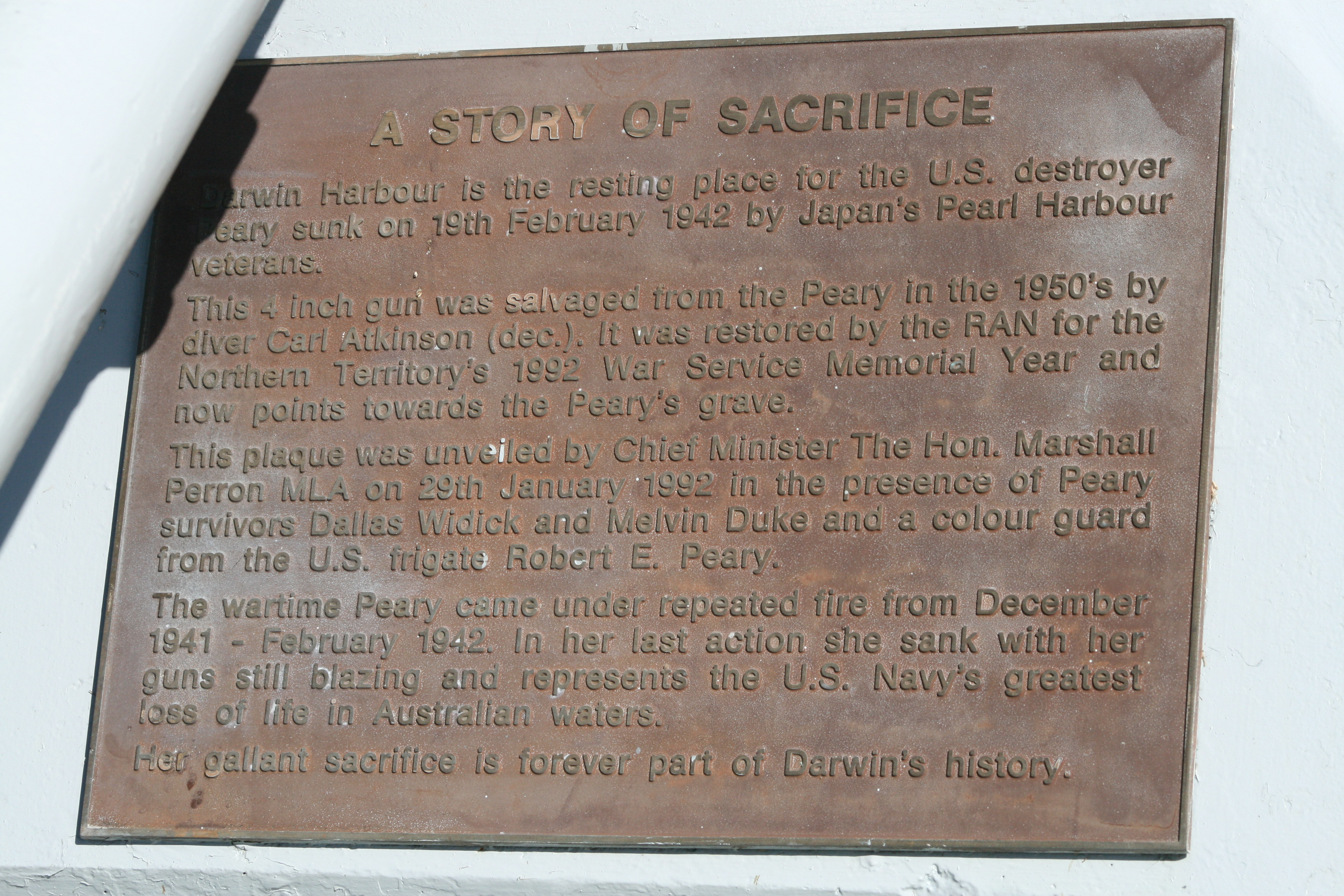 Plaque on USS Peary (DD-226) Memorial in Darwin, Australia